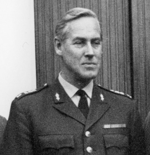 The military commander of the I. Military District, Major General Tage Olihn inspects Småland Artillery Regiment (A 6) in 1963.